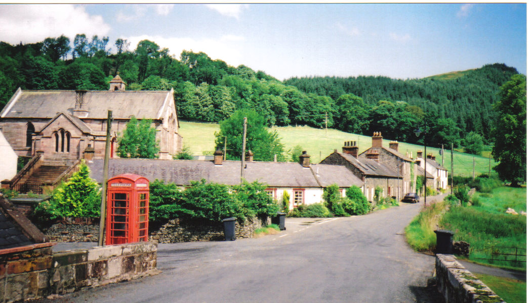 Tynron as seen from the bridge over the Shinnel